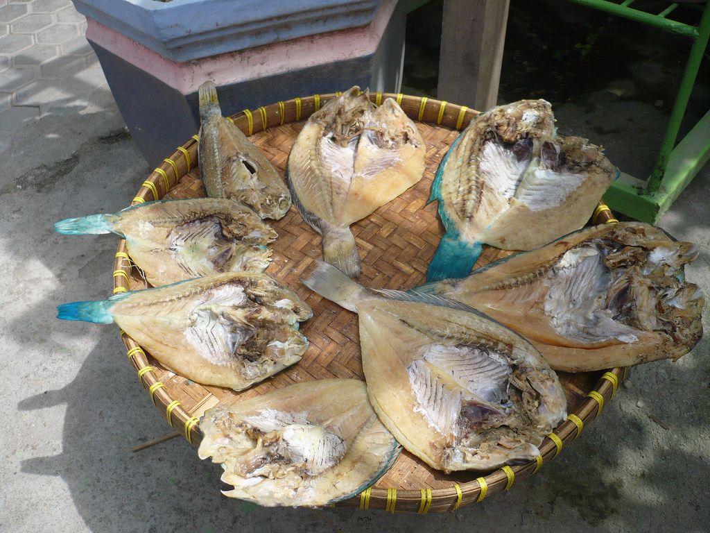 Dried fish, Bajo Lembain Lombok, Indonesia